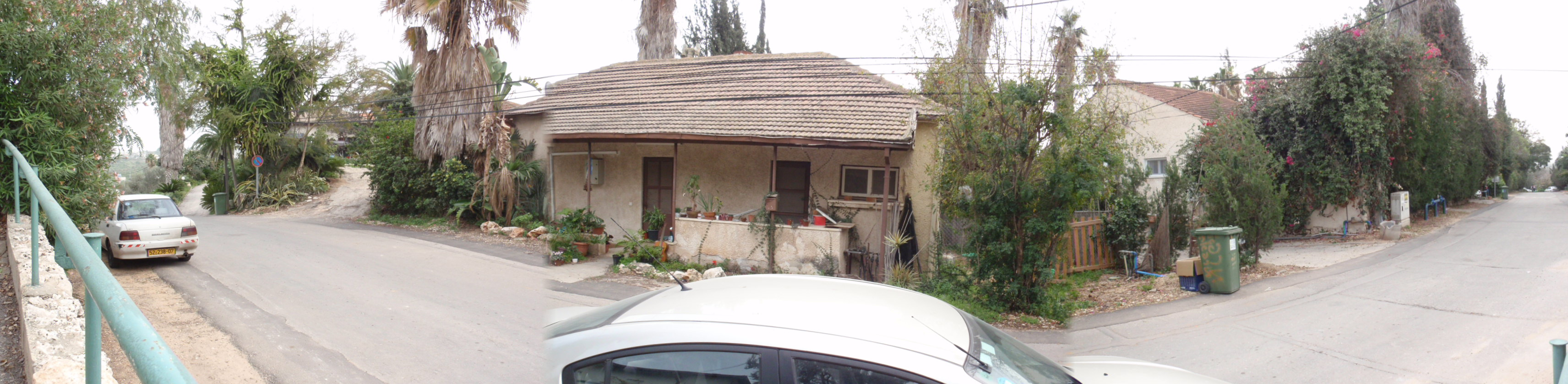 Shuk Hsayarim ירקות בשוק הסיירים Nice corner in Moshav Beit Oved